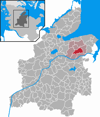 Locator maps of municipalities in Schleswig-Holstein - District Rendsburg-Eckernförde